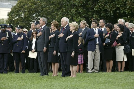 President George W. Bush, Mrs. Bush, Vice President Dick Cheney and Mrs. Cheney, stand by families of victims of 9/11 during the playing of Taps following a Moment of Silence on the South Lawn, Saturday, Sept. 11, 2004. White House Photo